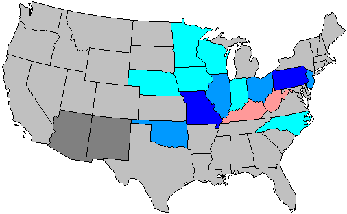 Summary of party change of U.S. house seats in the 1906 House election. Stripes indicate a tie between the gains of two or more parties. Legend: 6+ Democratic seat pickup 3-5 Democratic seat pickup 1-2 Democratic seat pickup 1-2 Republican seat pickup 3-5 Republican seat pickup 6+ Republican seat pickup 1-2 Progressive seat pickup 1-2 Farmer-Labor seat pickup 1-2 Socialist seat pickup Note: years ending in 2 may have inconsistent results due to redistricting.